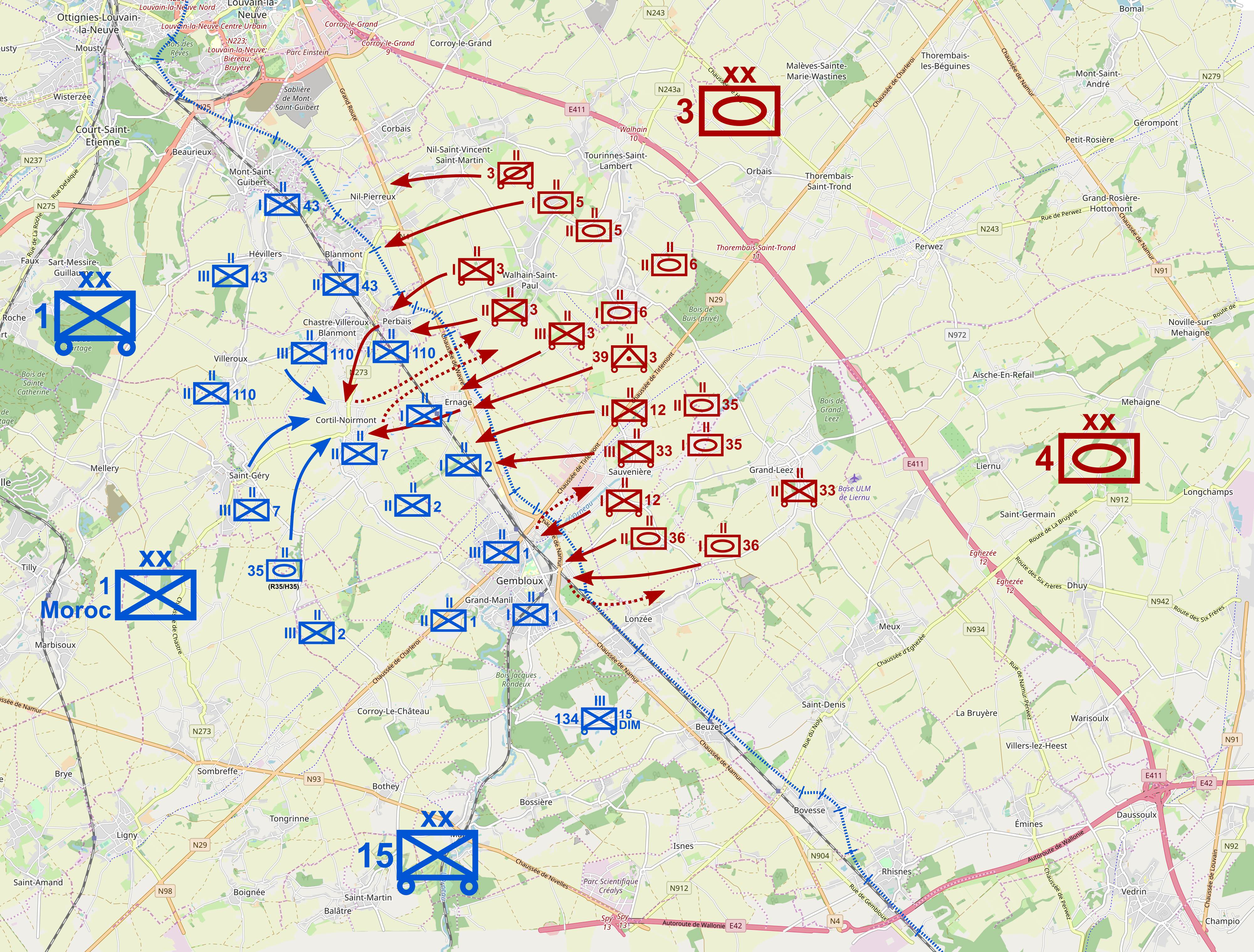 Map showing the battle at Gembloux, May 15 1940. Influenced by maps in Pier Paolo Battistelli's "Panzer Divisions: The Blitzkrieg Years 1939-40". This map may be incomplete, and may contain errors. Don't rely solely on it for navigation.